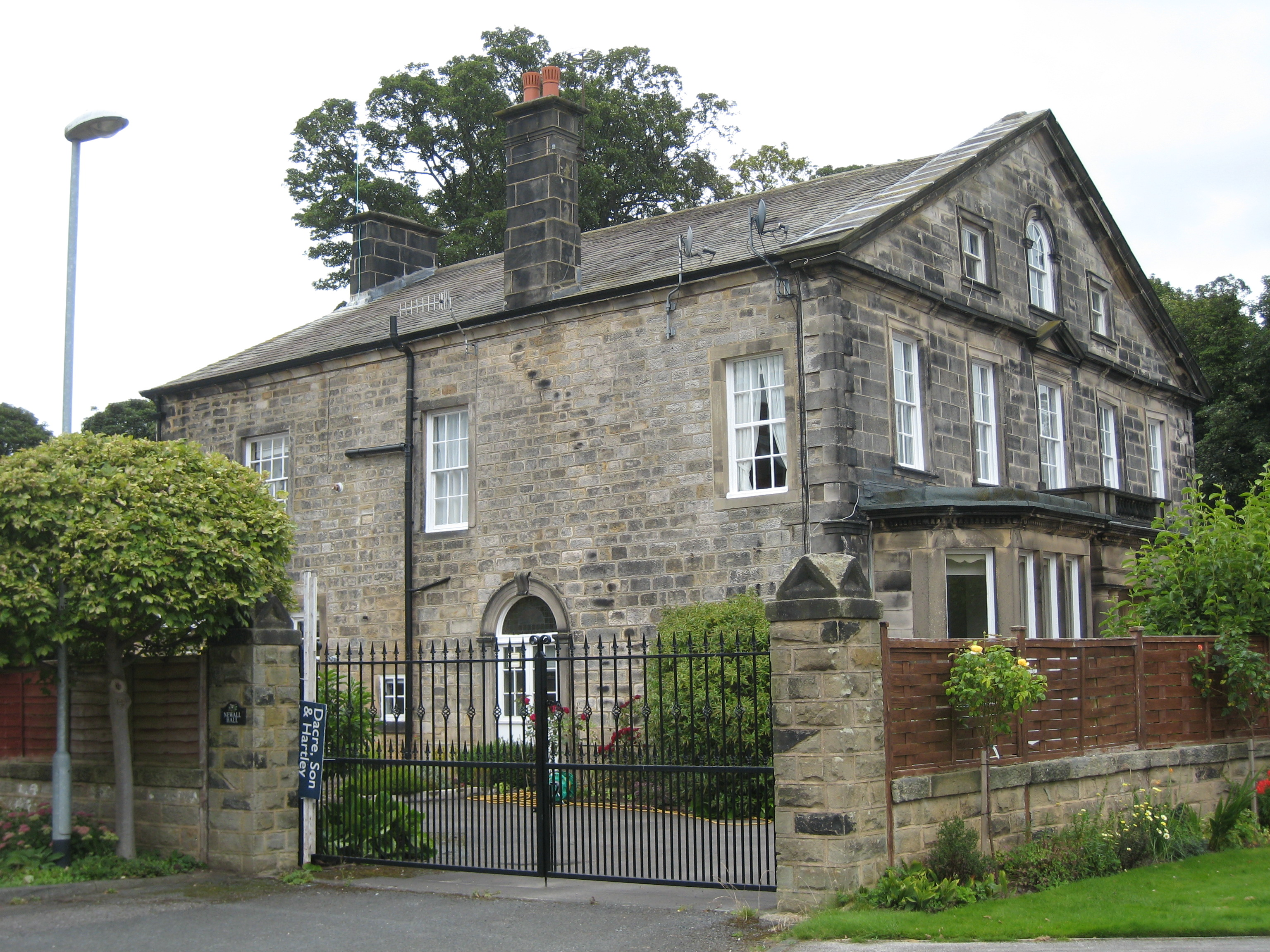 Newall Hall, Newall Hall Park, Otley LS21 2RD. Grade II listed building (1752) former hall of the area, now flats.